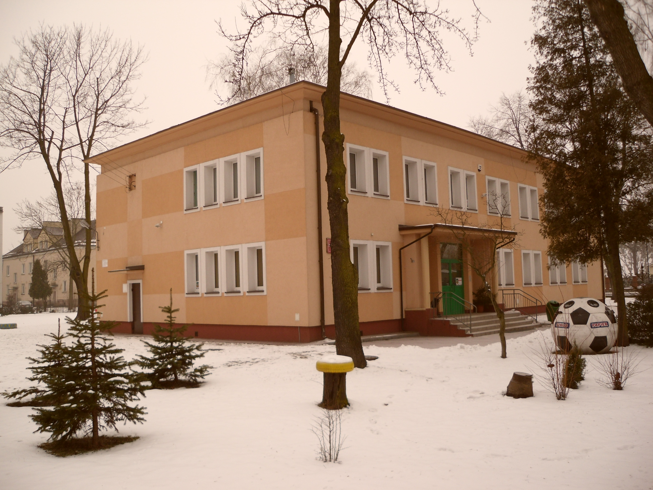 Sochaczew - kindergarten.